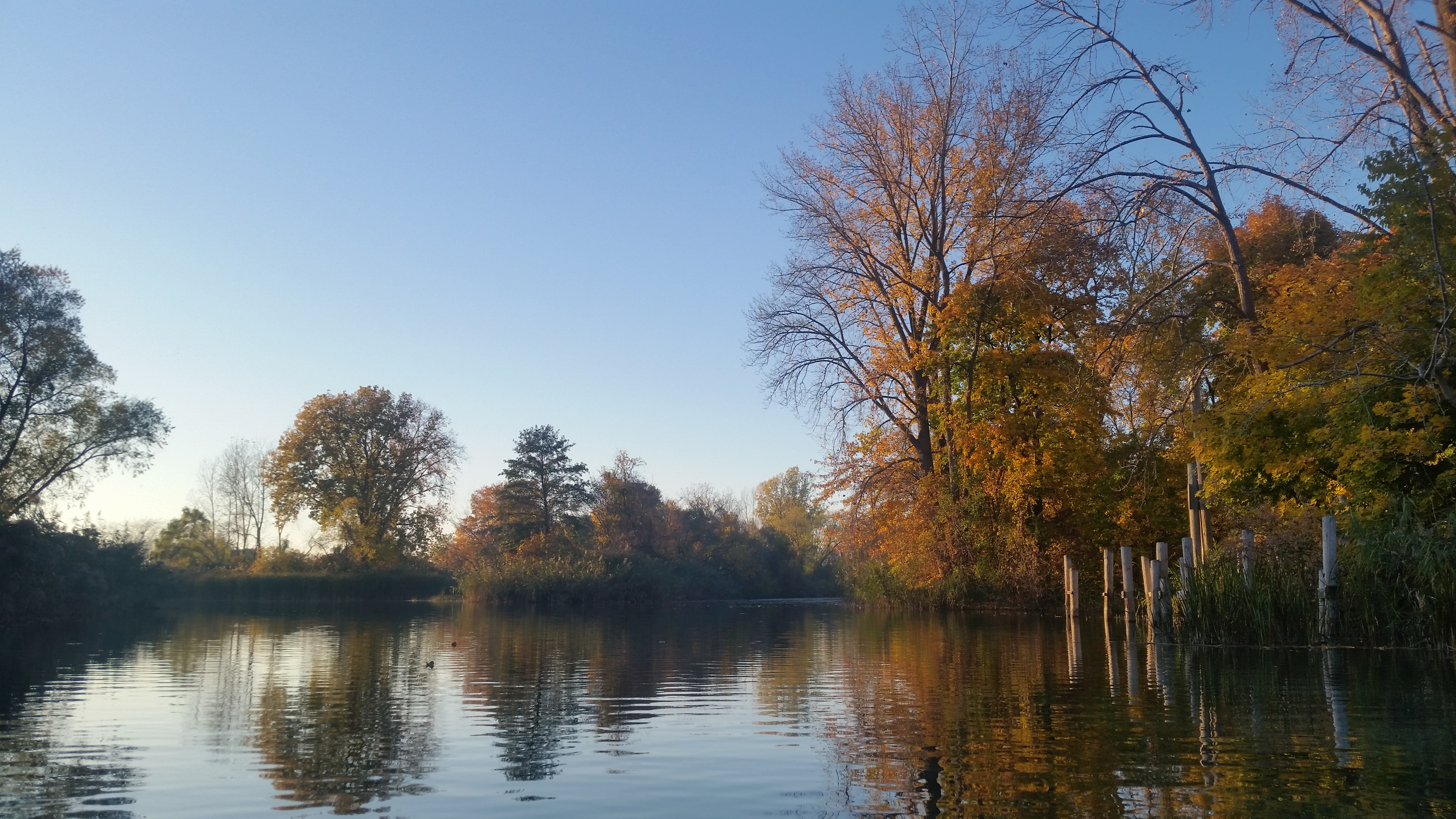 Picture taken from inside the canals of the island on a gorgeous autumn evening.